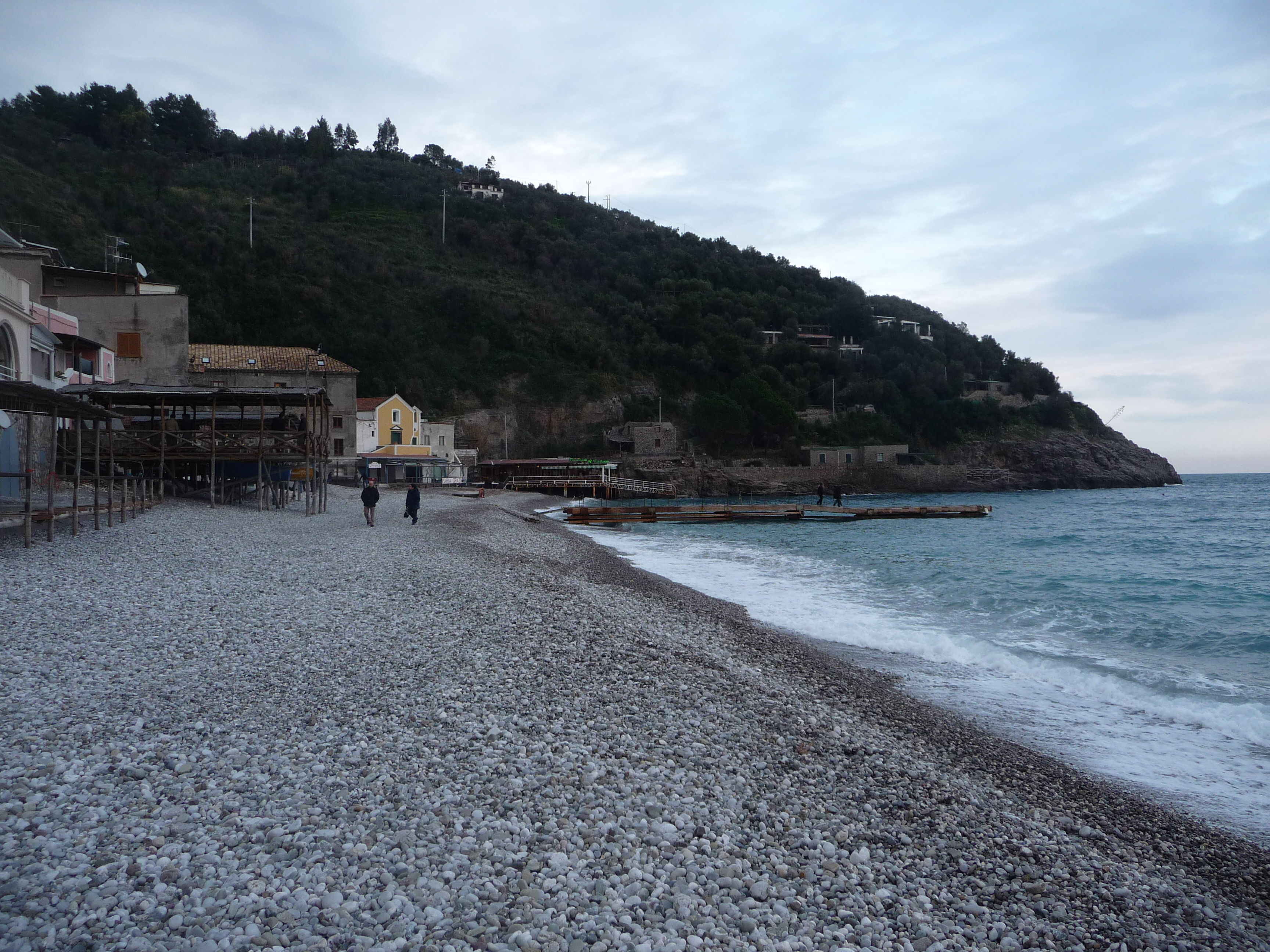 Seaside - Nerano (Massa Lubrense - NA)